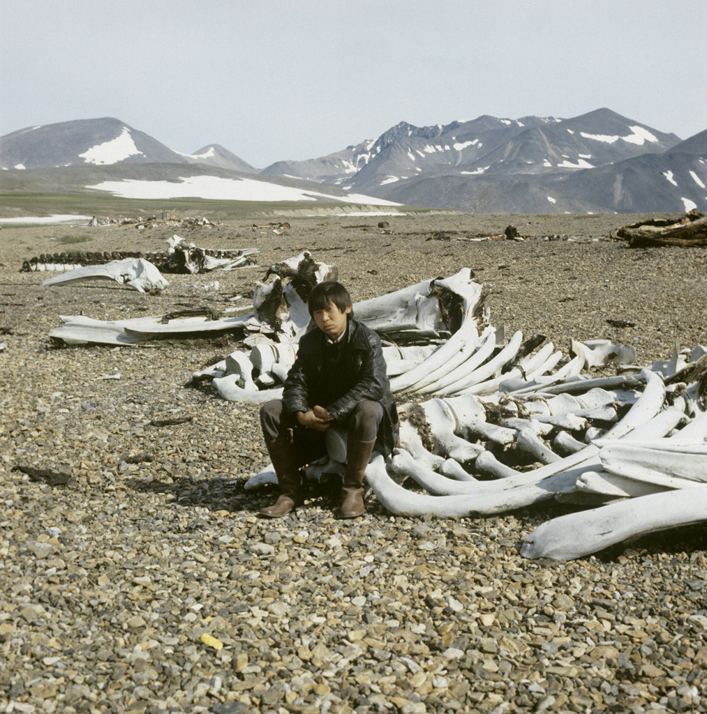 “Whale skeletons”. Whale skeletons.